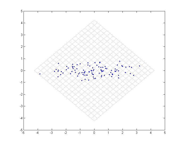 Linear PCA